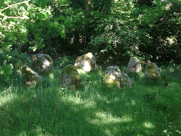 Lisseyviggeen stone circle, just outside Killarney, County Kerry, Ireland. Also known locally as the Seven Sisters.